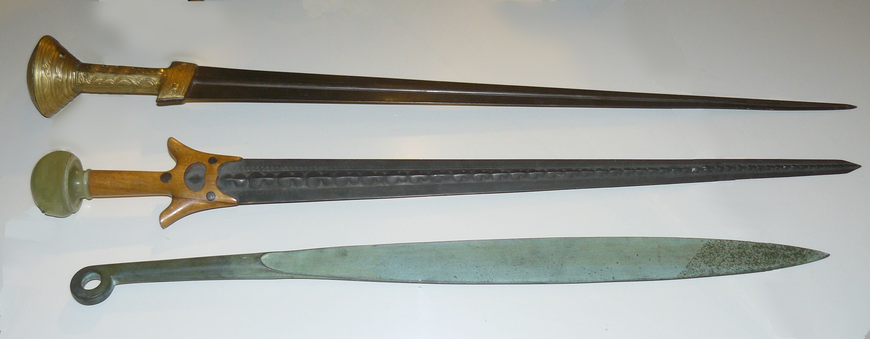 Ancient myceaean swords after reconstruction - replicas from the museum in Mycenae. The original pieces of these swords are in the National Archeological Museum in Athens.